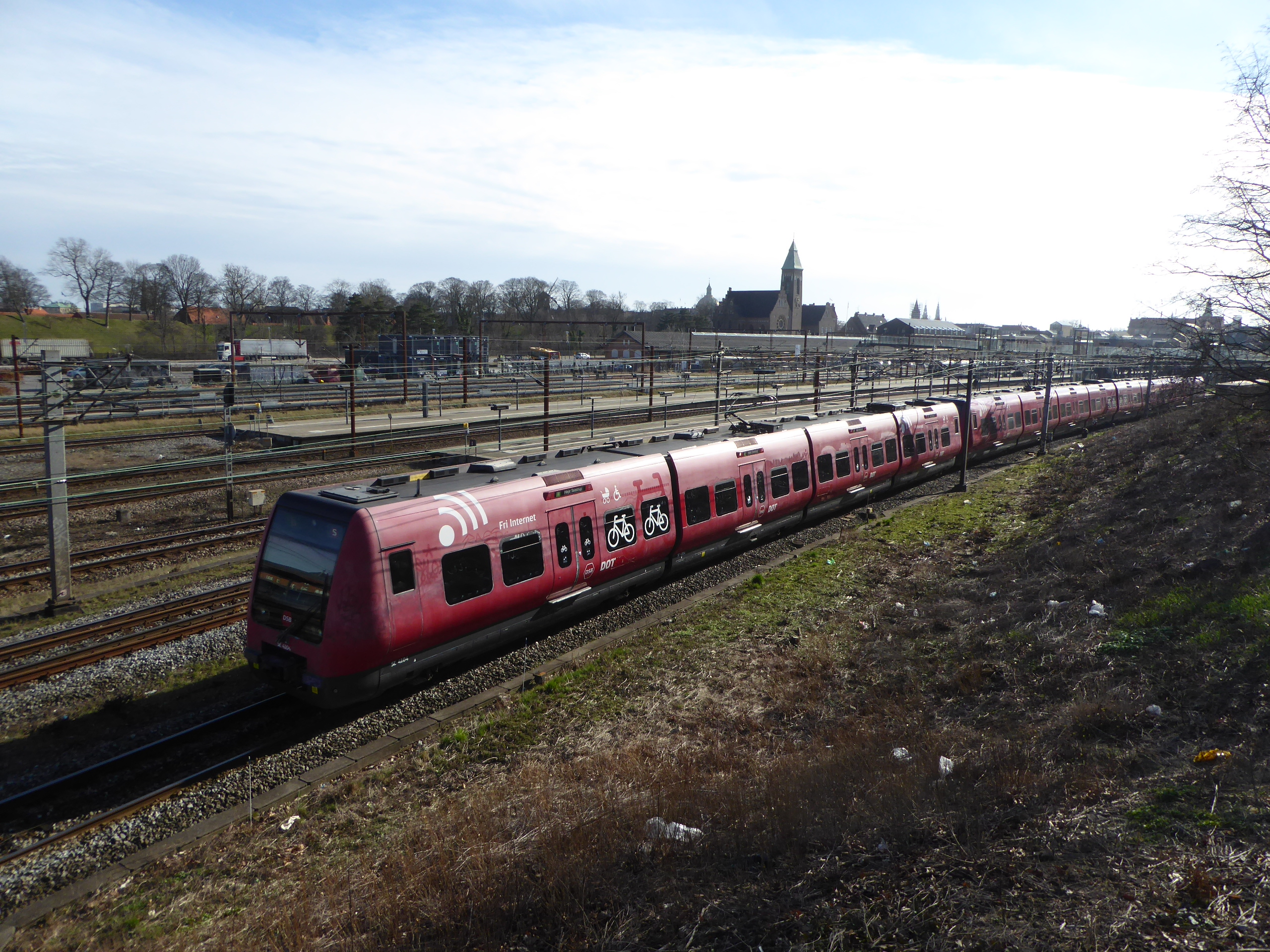 S-train line B for Høje Taastrup at Østerport Station in Østerbro in Copenhagen.